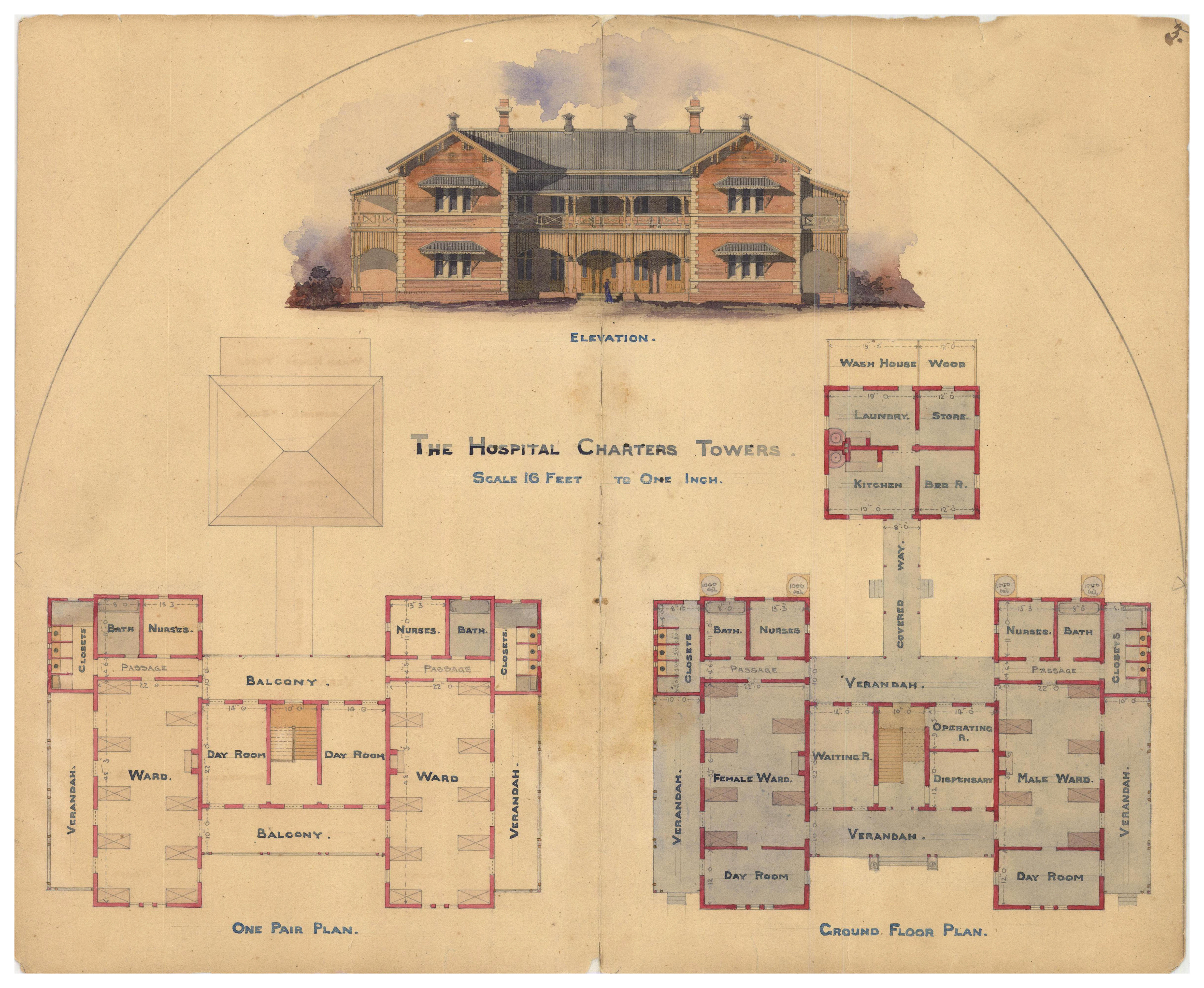 Architectural drawing of the Hospital, Charters Towers, 1887